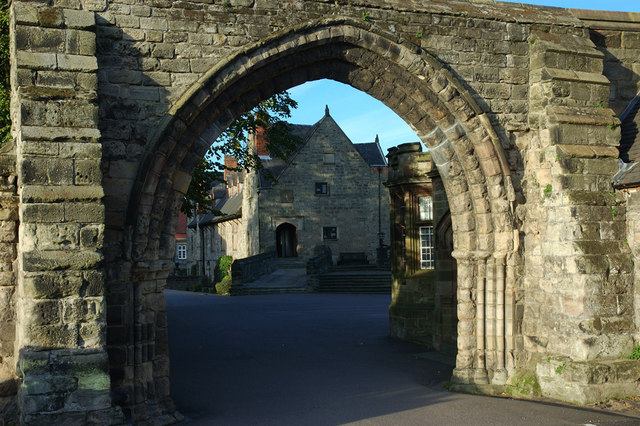 Arch and Old Priory, Repton Through the arch can be seen the Old Priory. This is one of the few buildings that remain of Repton Priory after the upheaval that followed Henry VIII's dissolution of the monasteries. It is one of the original buildings that formed what has now become Repton School.